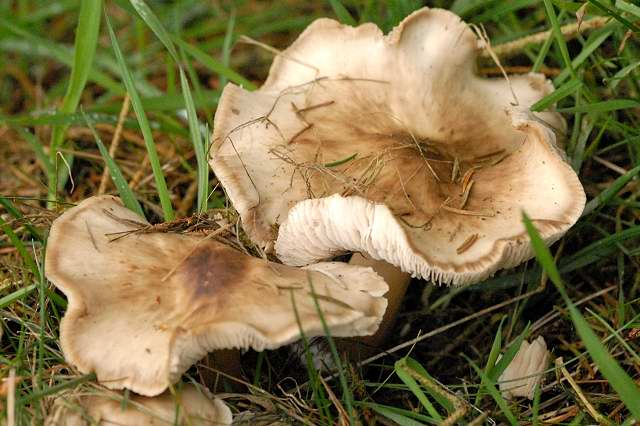 Rhodocollybia butyracea from Commanster, Belgium. The determination of the species shown in this picture has been verified.